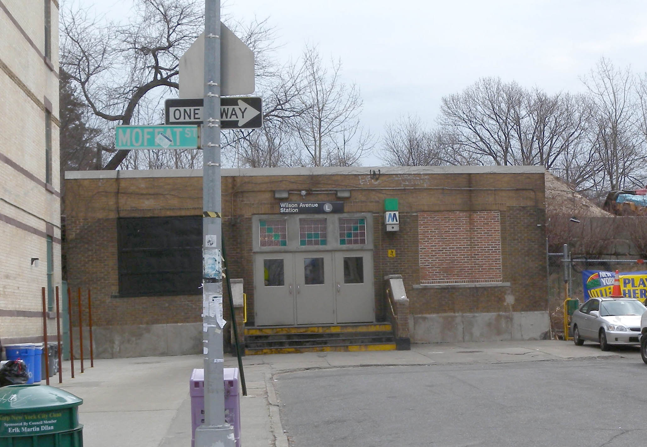 Looking east along Wilson stub at Wilson Avenue (BMT Canarsie Line) station on a cloudy midday. See also File:Wilson Av BMT jeh.JPG for platform.